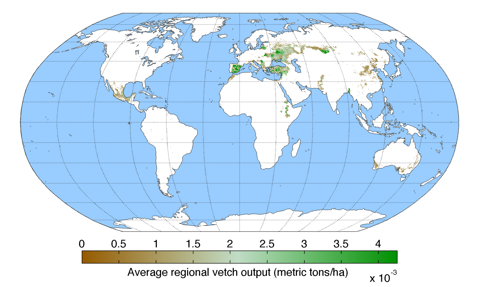 Map of vetch yield across the world (kg/ha) compiled by the University of Minnesota Institute on the Environment with data from: Monfreda, C., N. Ramankutty, and J.A. Foley. 2008. Farming the planet: 2. Geographic distribution of crop areas, yields, physiological types, and net primary production in the year 2000. Global Biogeochemical Cycles 22: GB1022